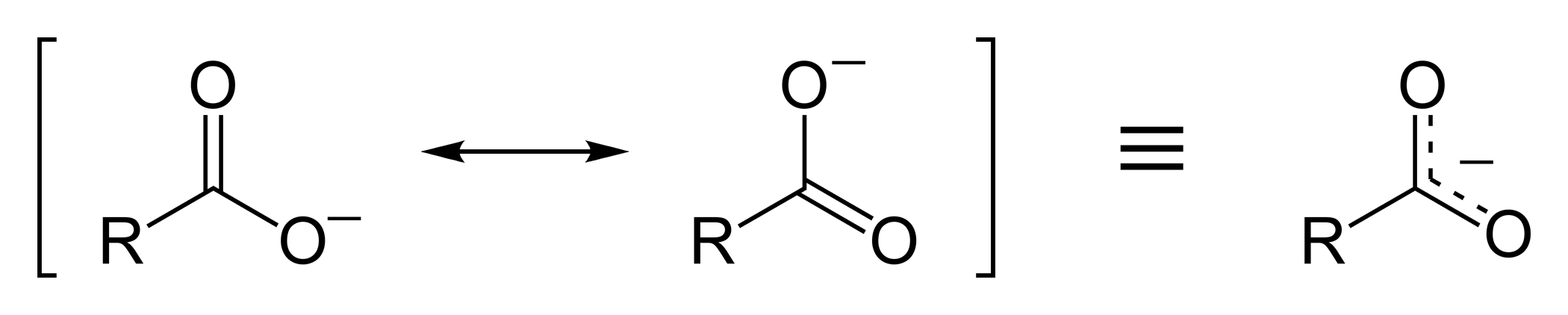 Structural description of the delocalisation of electrons in the pi system of a carboxylate anion. Structure drawn in ChemDraw Ultra 11.0.